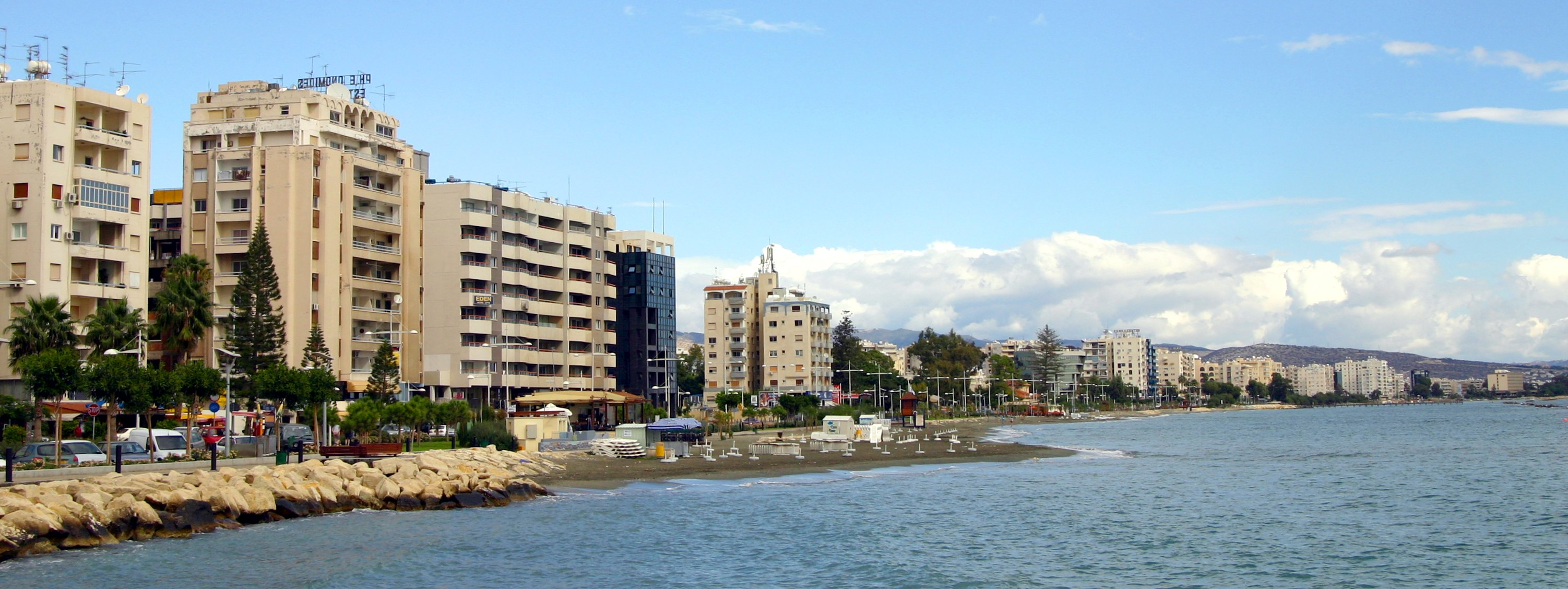 Limassol beach front